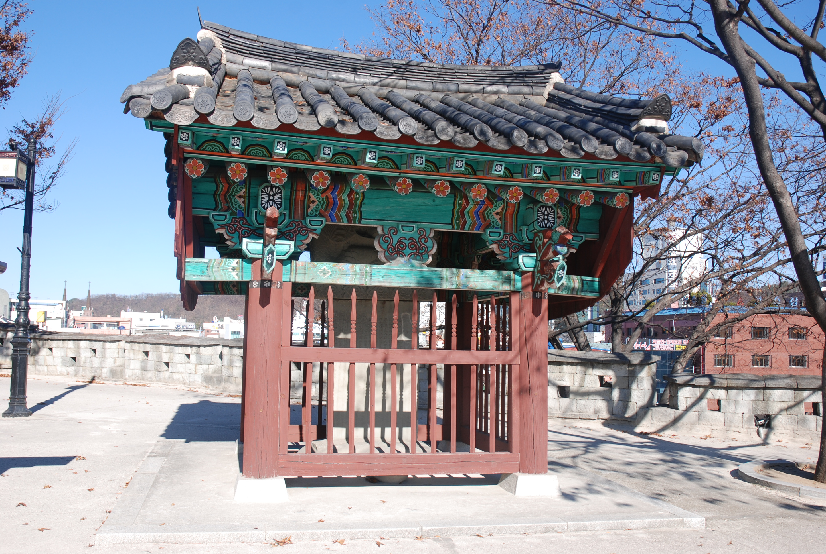 The JungChungDanBy, This memorial monument is built for the deceased against Japanese invader in 1686.